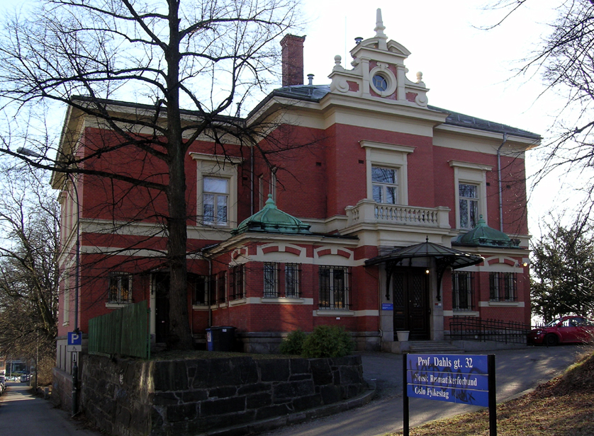 Professor Dahls gate 32, Oslo. Built as brewer Knud C. Langaard's villa 1896. Architect Harald Olsen.